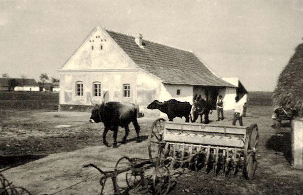 Salaš (messuage) in Mokrin, Serbian Banat, around 1930. This farm belonged to family Grastić and Badrljica and is nonexistent today. This is a historical photograph shoving large bovinae, among them unknown cattle breed and a Water Buffalo (Bubalus bubalis) as a proof that this animal was widely used in rural environment. Српски (ћирилица): Салаш Грастића и Бадрљица сликан око 1930. год. у Мокрину. Салаши породица Грастић и Бадрљица из Мокрина су се налазили у подручју мокринског атара у близини реке Златице.